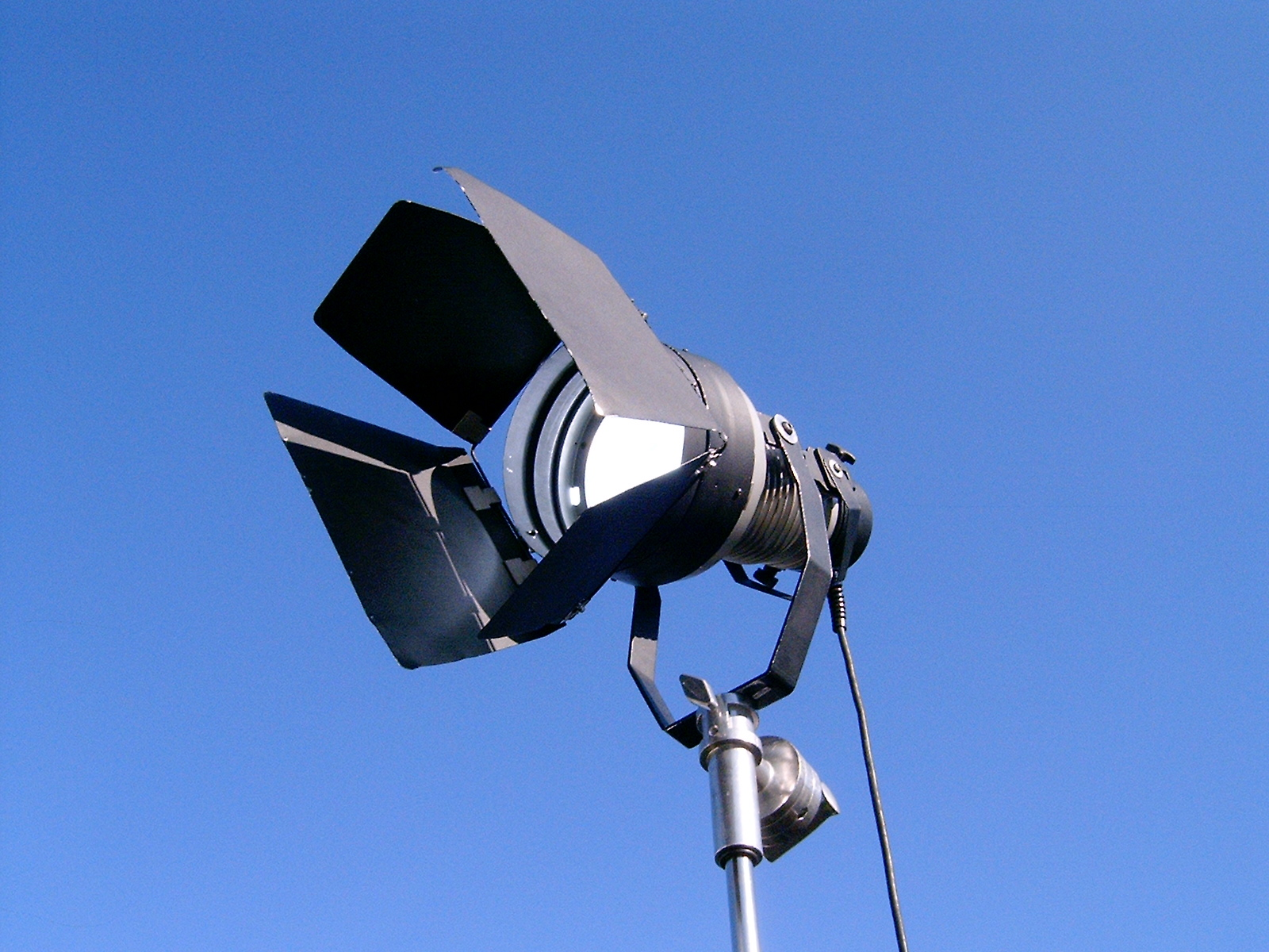 An HMI light on a "high roller" stand. Also see the connected ballast.